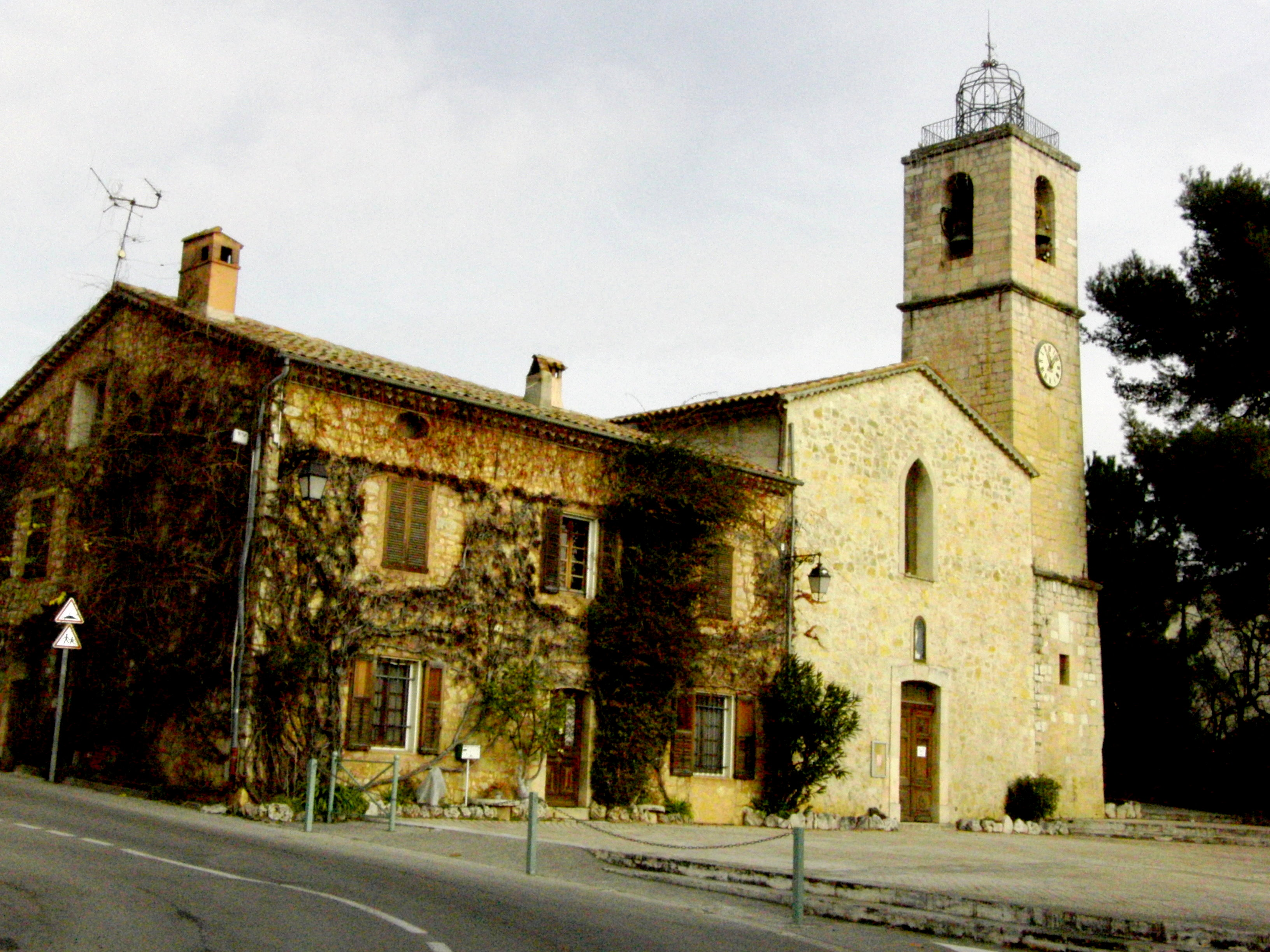 Saint-Pons church, Le Rouret, France